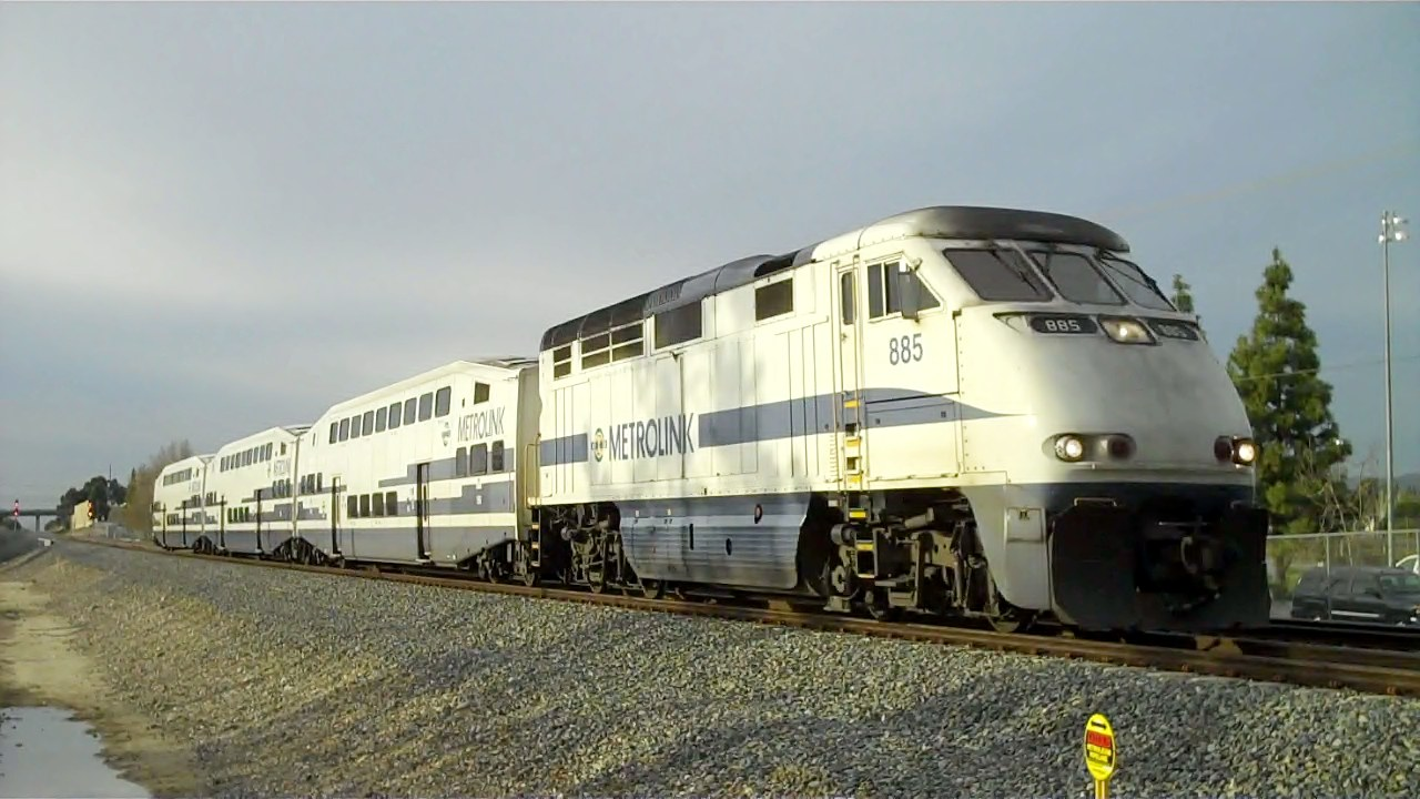 A Metrolink train passes Heroes Park, Lake Forest, California, United States.